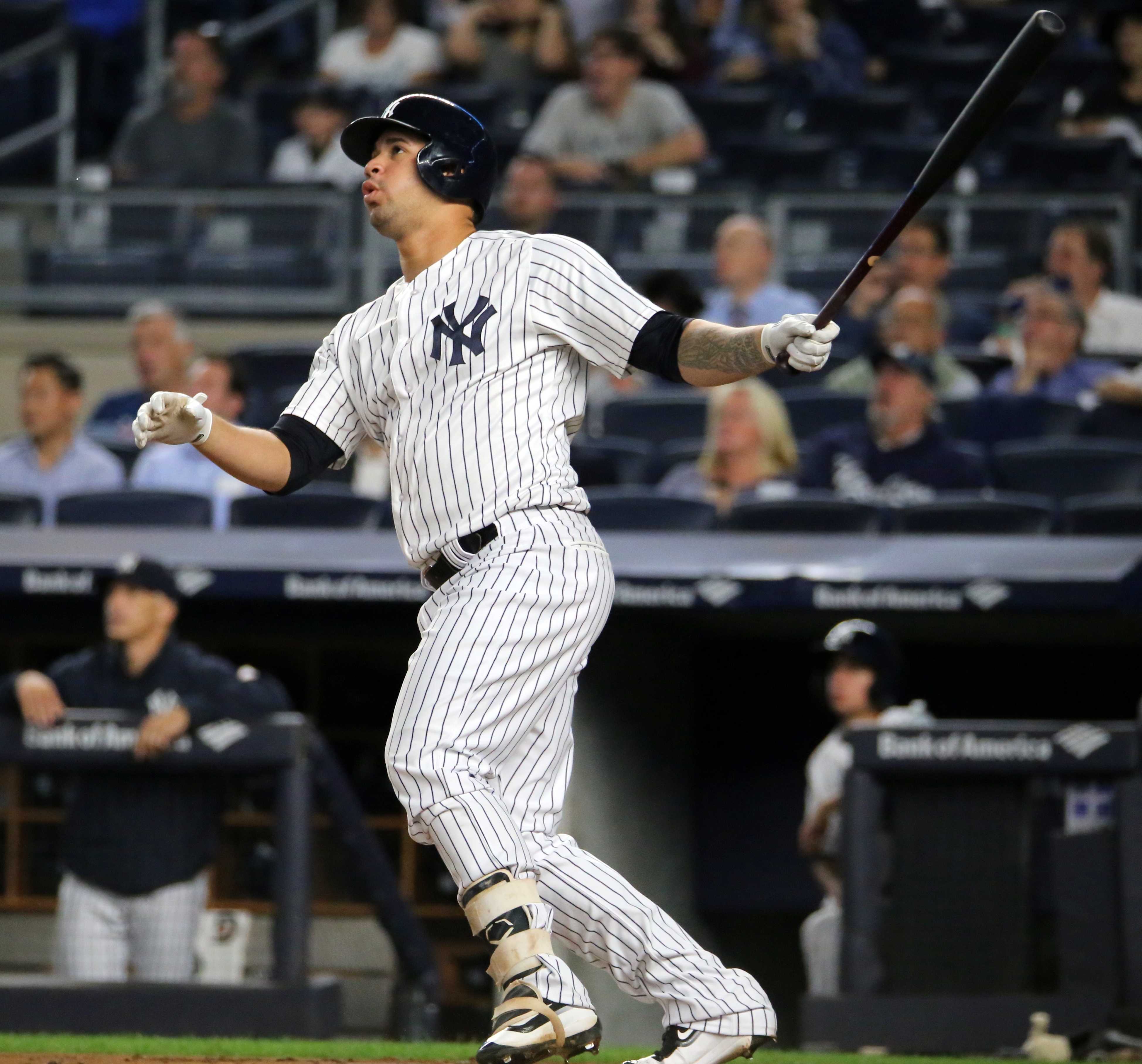 New York Yankees DH Gary Sánchez hits a two-run home run in the first inning of a game against the Boston Red Sox at Yankee Stadium in the Bronx, New York, NY on September 27, 2016